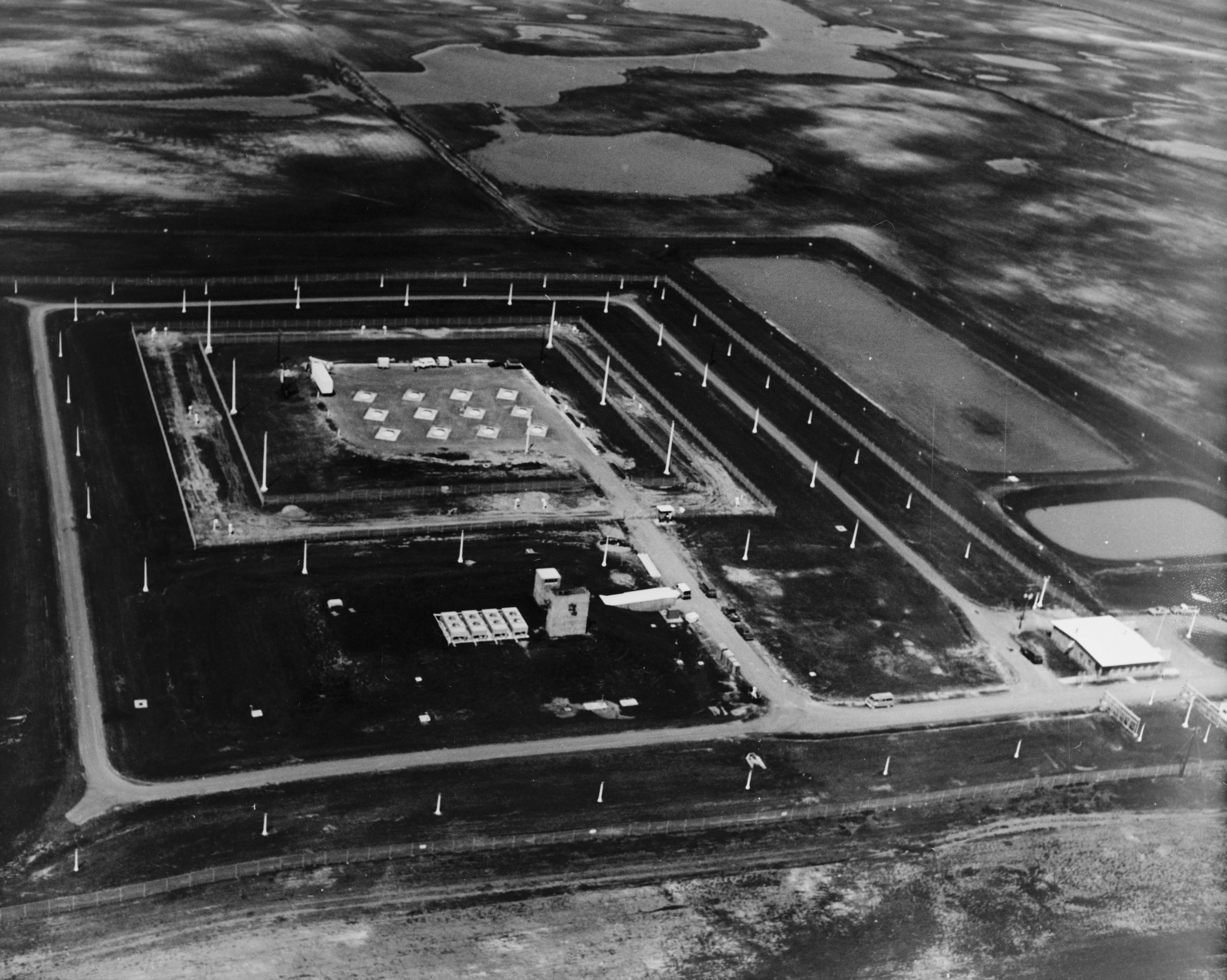 Stanley R. Mickelsen Safeguard Complex, Remote Sprint Launch Site No. 2, West of Mile Marker 220 on State Route 1, 6.0 mile, Nekoma vicinity, Cavalier County, ND HAER caption "Photographic copy of photograph (original print in possession of James E. Zelinski, Earth Tech, Huntsville, AL). Photographer unknown. Aerial view (southwest to northeast) of remote sprint launch site #2, nearing completion. The RLOB has been earth-mounded. The limited access sentry station can be seen in the PAR right foreground, behind it are the waste stabilization ponds. Barely discernible is the exclusion area sentry station at the entrance to the sprint field "